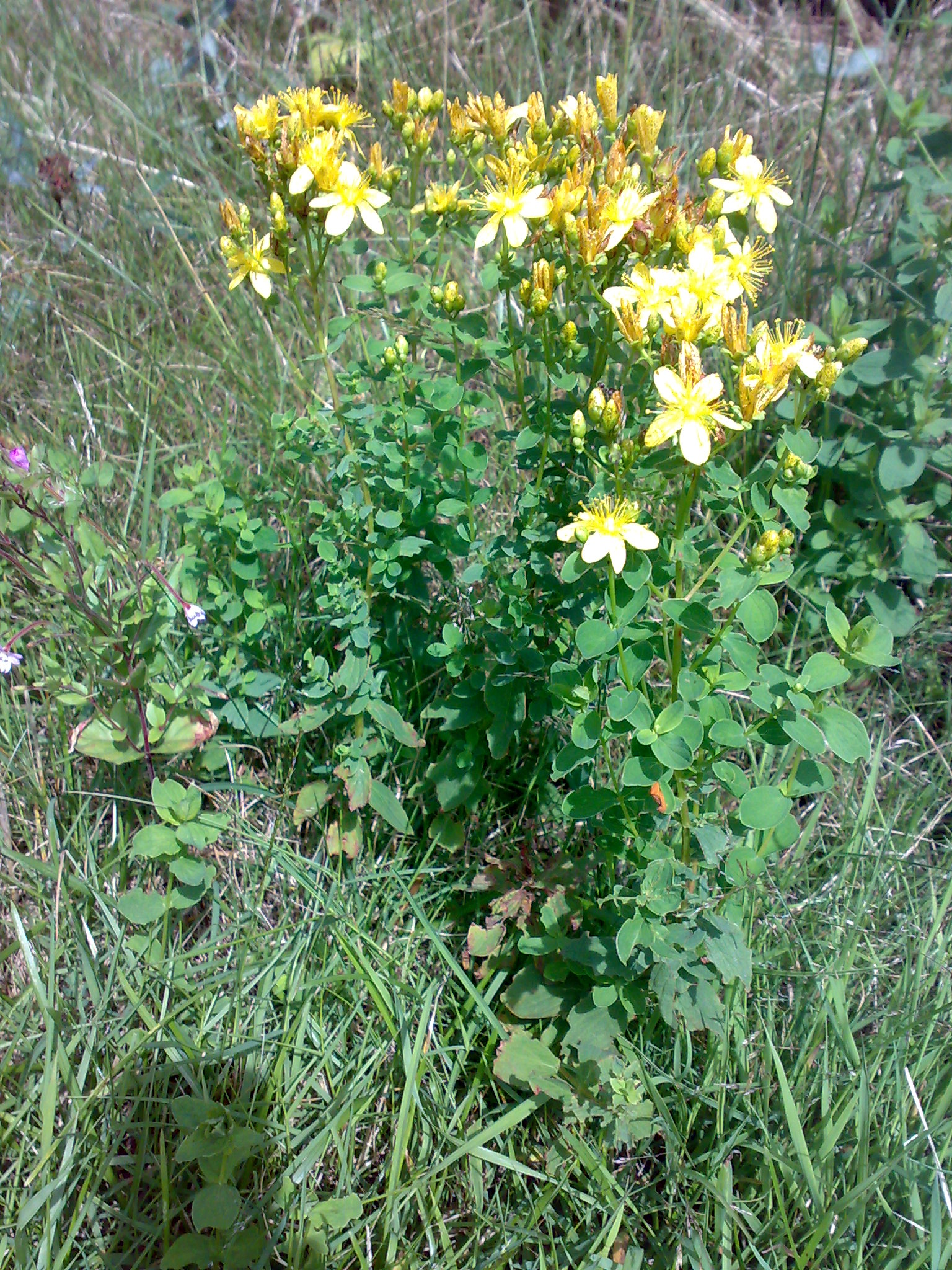 Hypericum perforatum Oslo, Norway